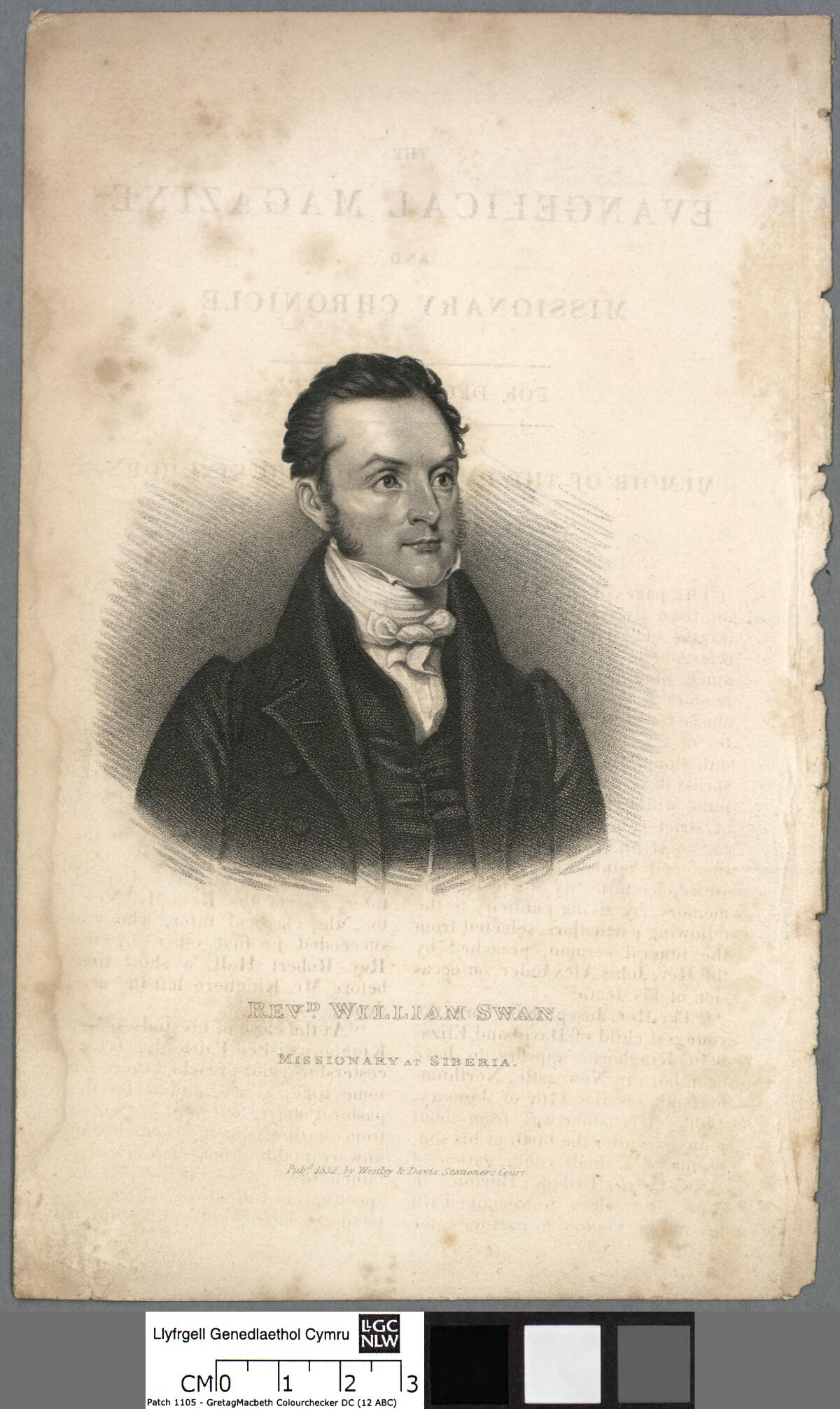 A portrait from the Welsh Portrait Collection at the National Library of Wales. Depicted person: William Swan – Scottish missionary in Siberia